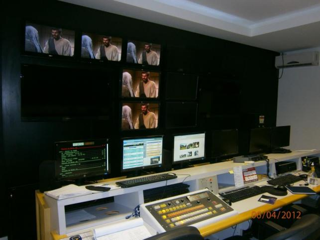 Master RBS Blumenau